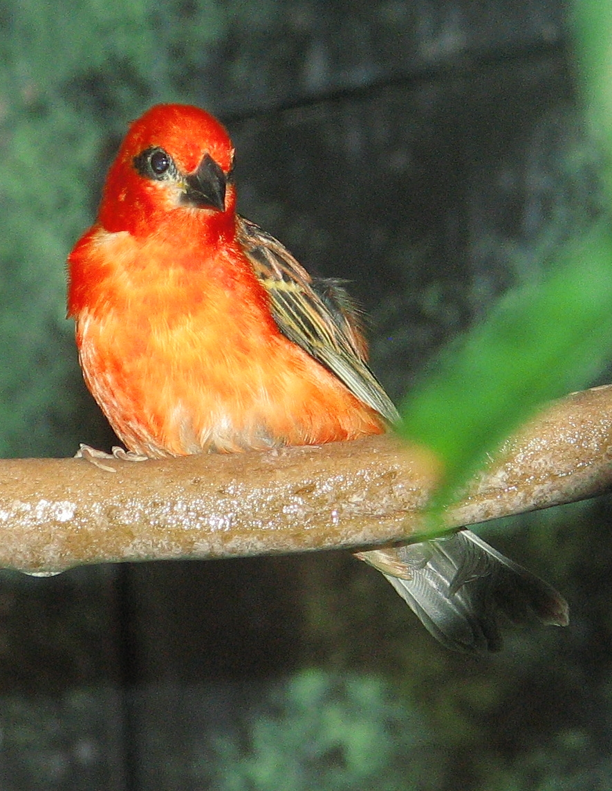 Madagascar Red Fody (Foudia madagascariensis) at the Louisville Zoo I have replaced one of my older images of this bird with a better,clearer and larger image...